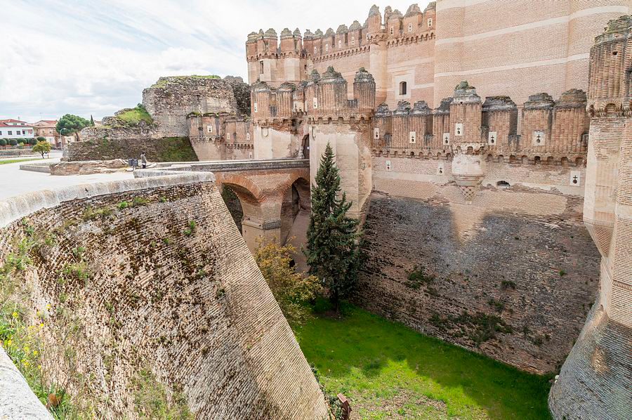 Foso y Pasarela de entrada del Castillo de Coca.